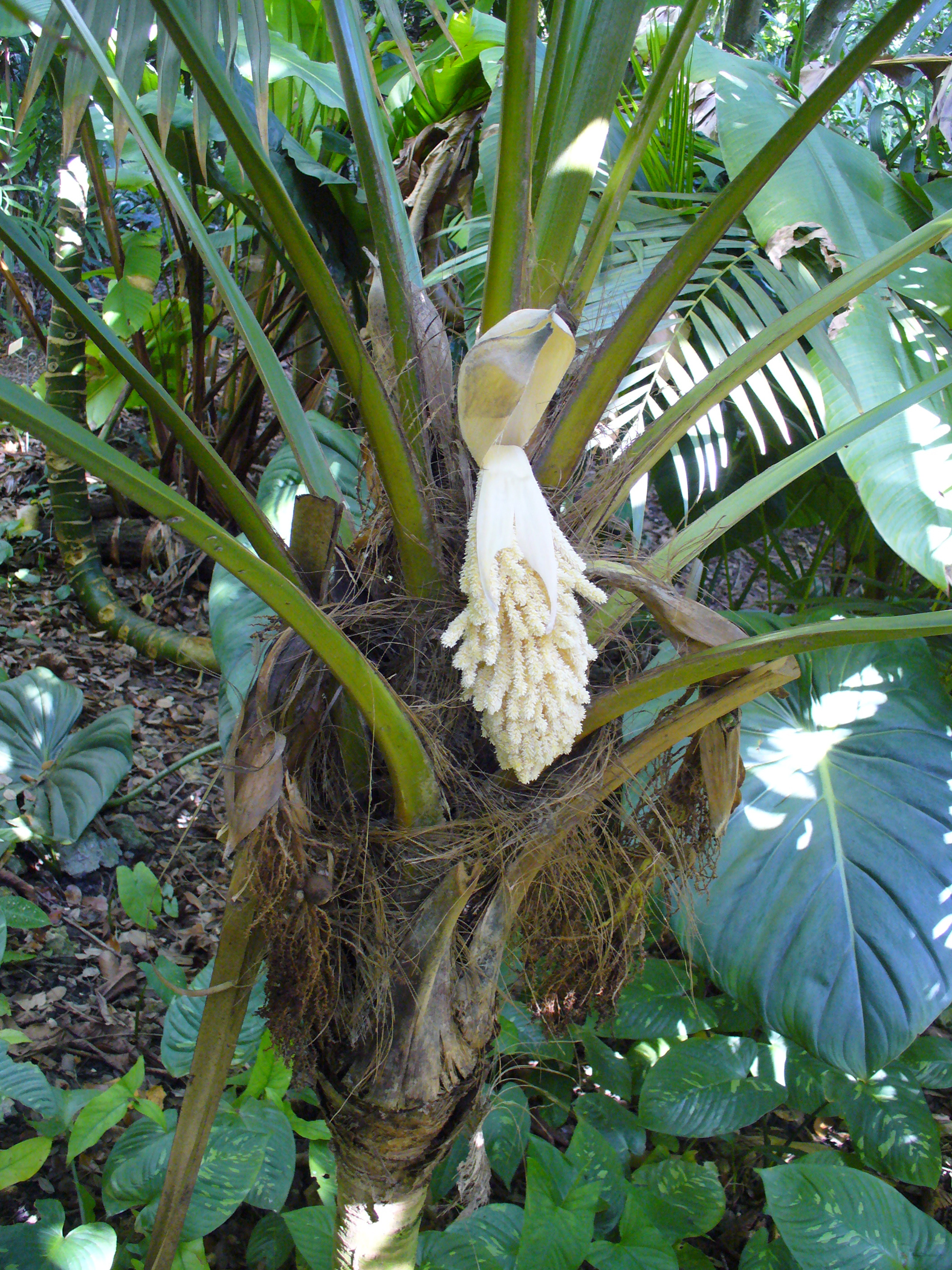 Chelyocarpus ulei Fairchild Tropical Botanic Garden, Miami, Florida, USA